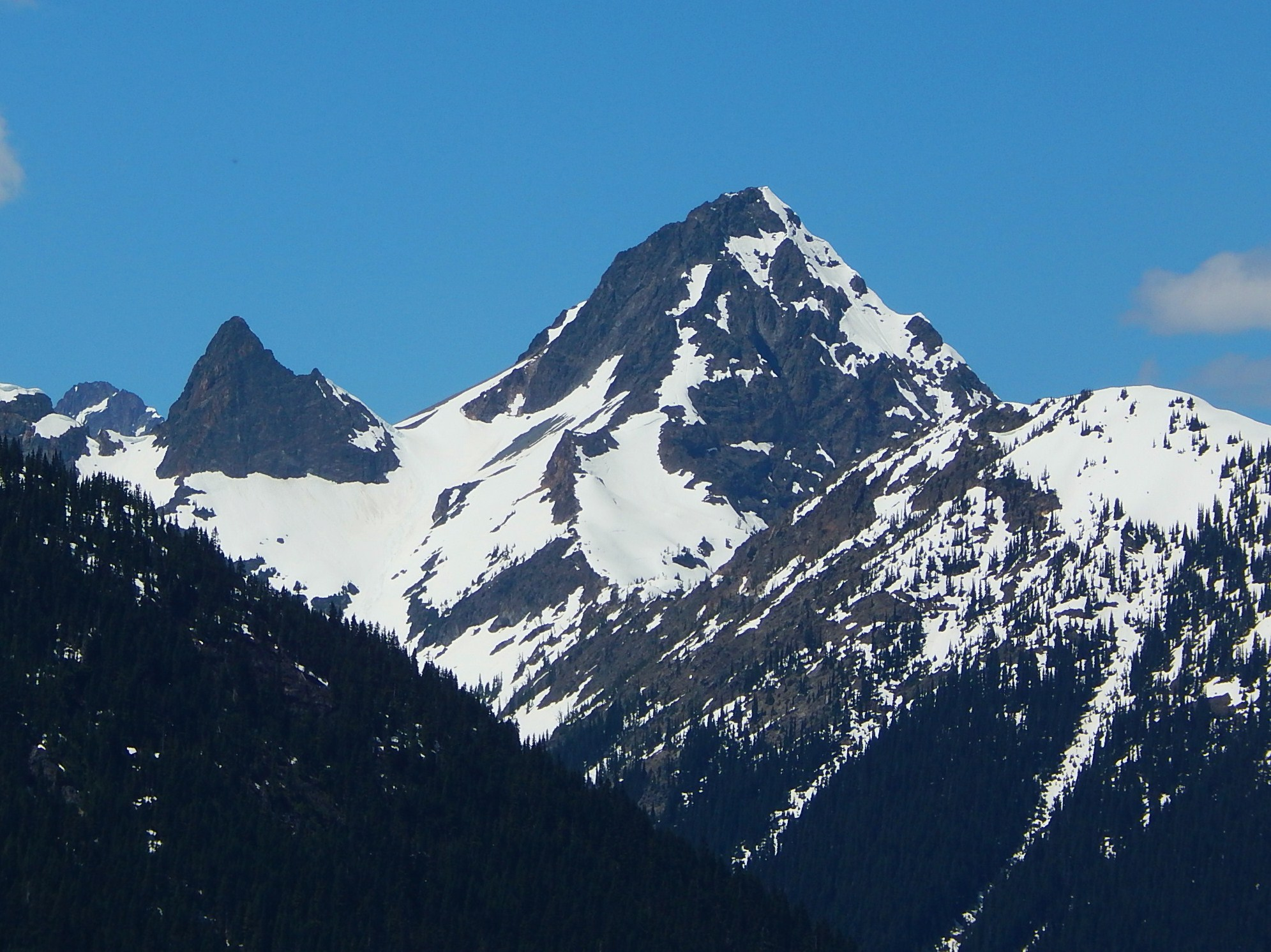 Graybeard Peak and Little Tack seen in the North Cascades from Highway 20